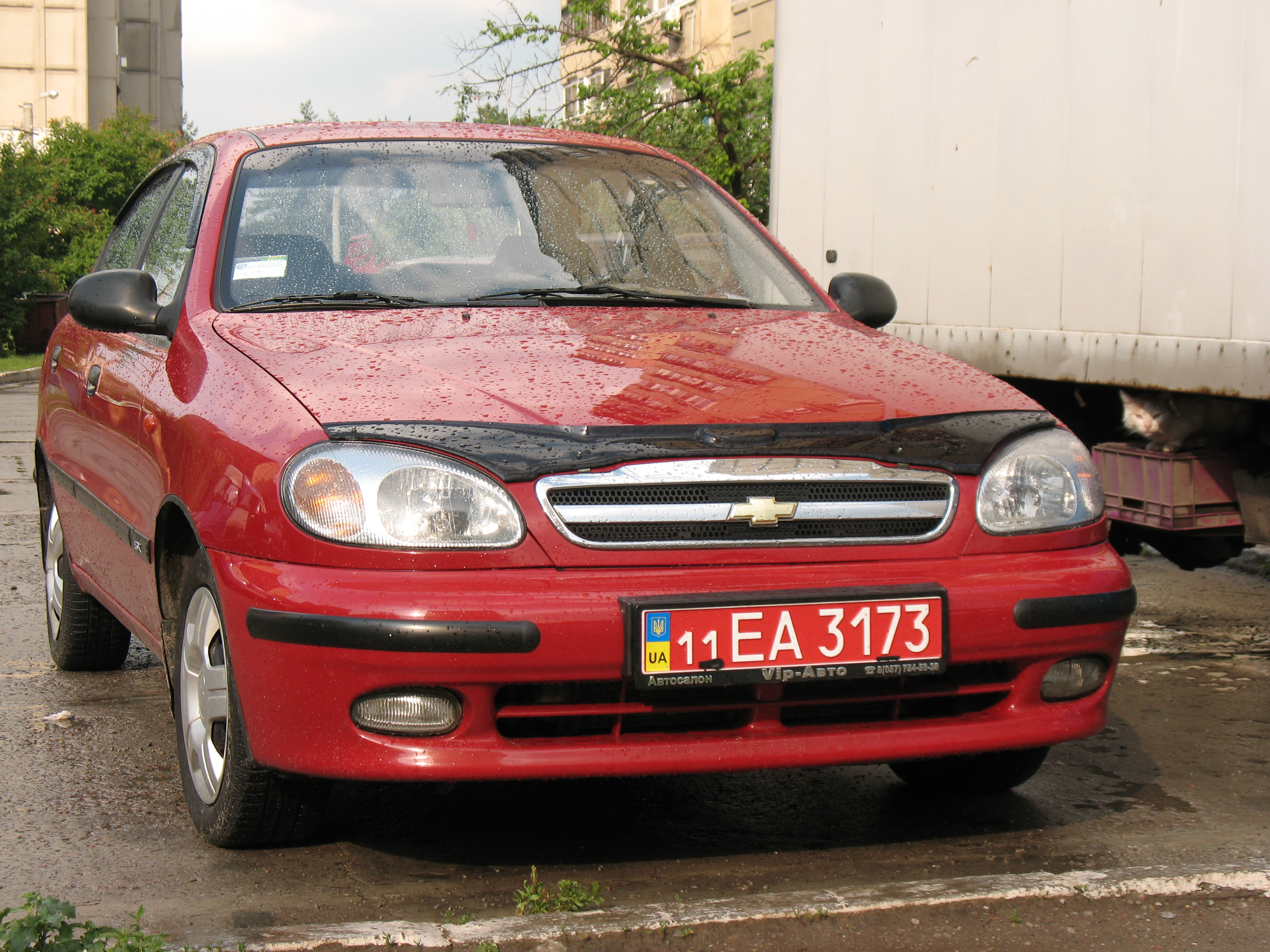 Red "Chevrolet Lanos" and cat after rain.